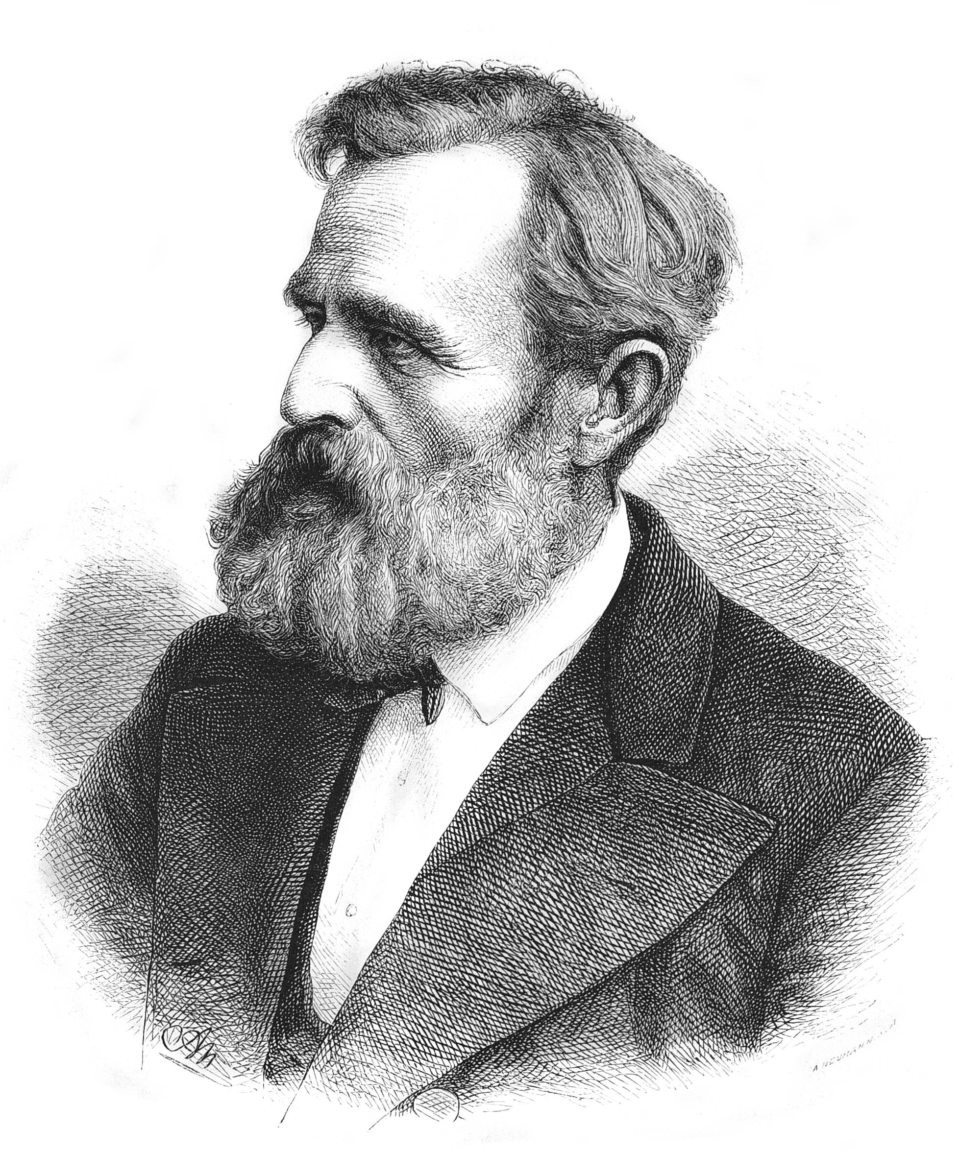 caption: "Karl Friedrich Lessing. Nach einer Photographie auf Holz gezeichnet von Adolf Neumann."